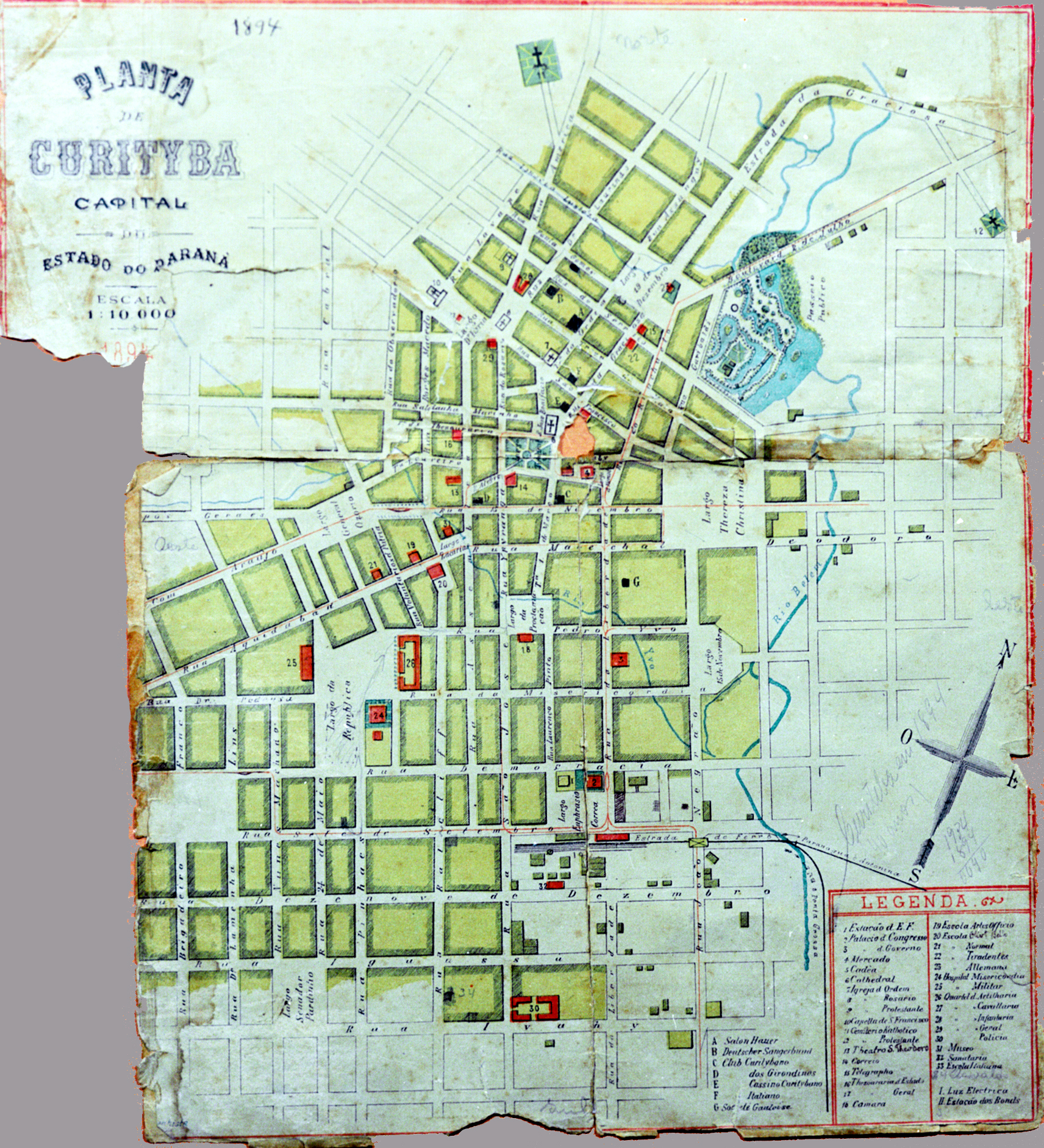 Map of the City of Curitiba, 1894. Highlighted in red for the trolley lines.